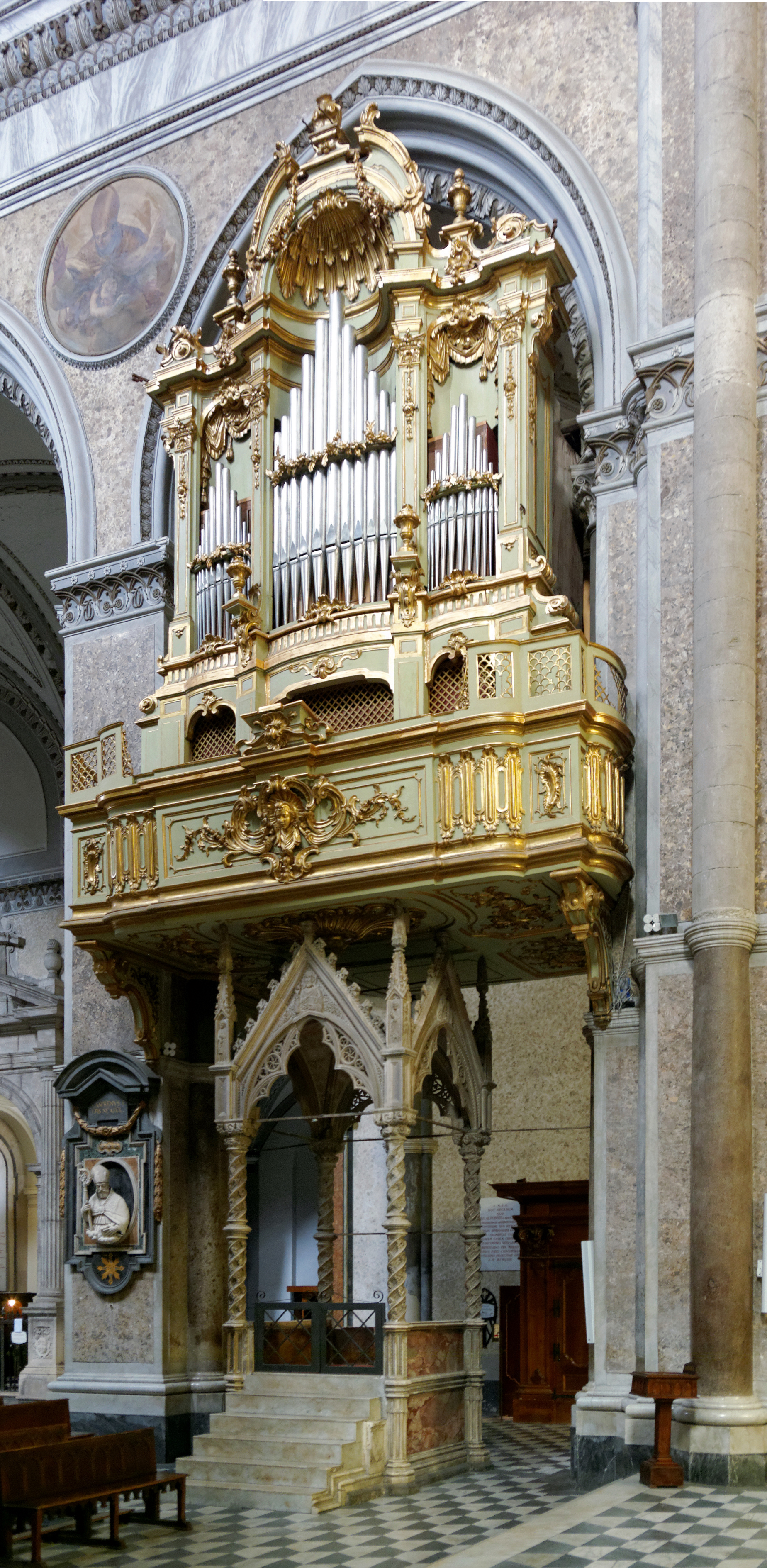 Naples, cathedral, organ